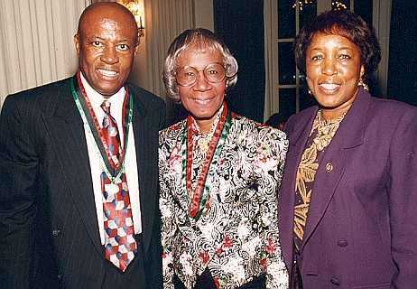 Congressman Edlophus Towns (left) and his wife, Gwen Towns (right) pose with former Congresswoman and Brooklyn native, Shirley Chisholm (center)